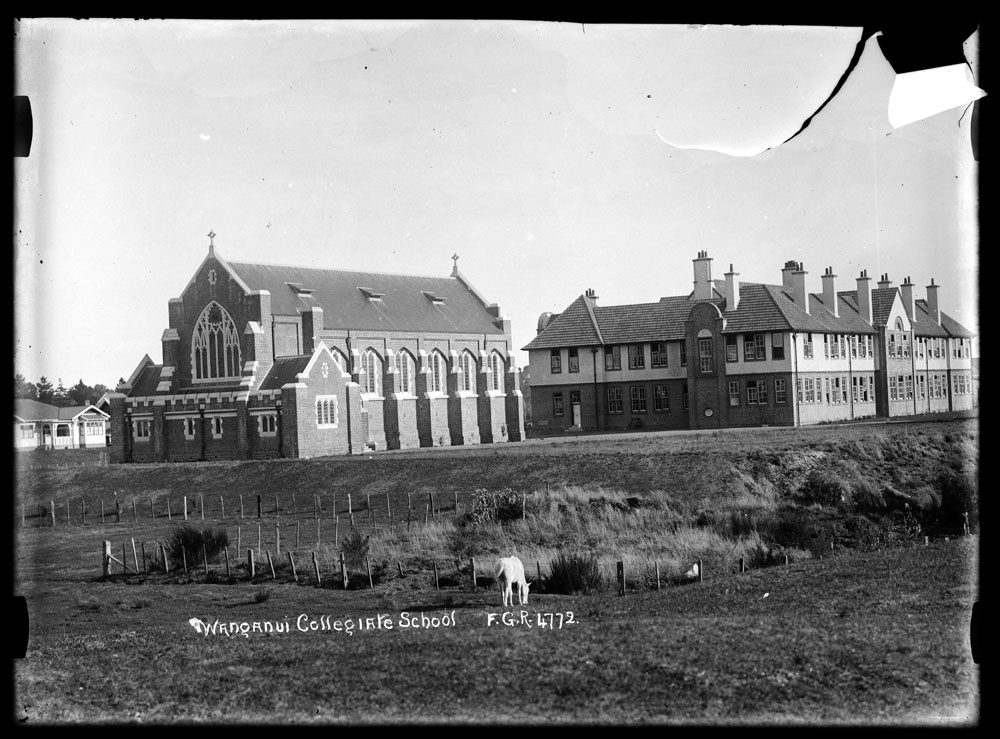 Showing the exterior of Wanganui Collegiate School and the School Chapel